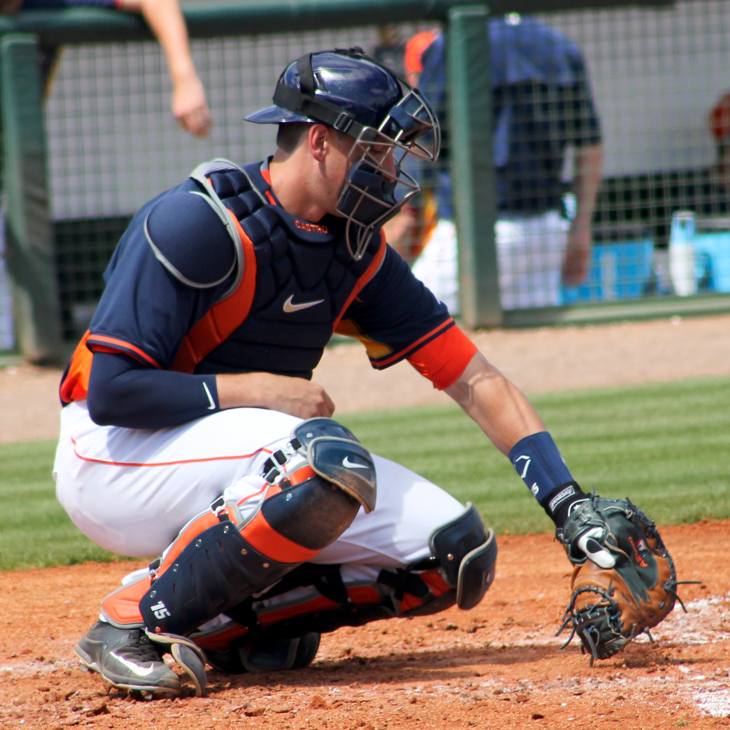 Professional baseball player Jason Castro blocks a pitch during spring training in March 2015.